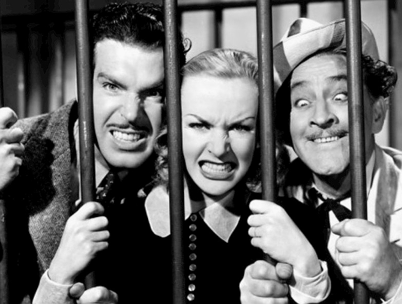 Scene from the 1937 film True Confession. Pictured are Fred MacMurray, Carole Lombard and John Barrymore.